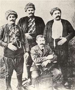 An 1894 photo of Turkish wrestler Yusuf İsmail with Kara Osman, Hassan Nurullah, and French promoter Joseph Doublier which appears on noble 0501.htm article.